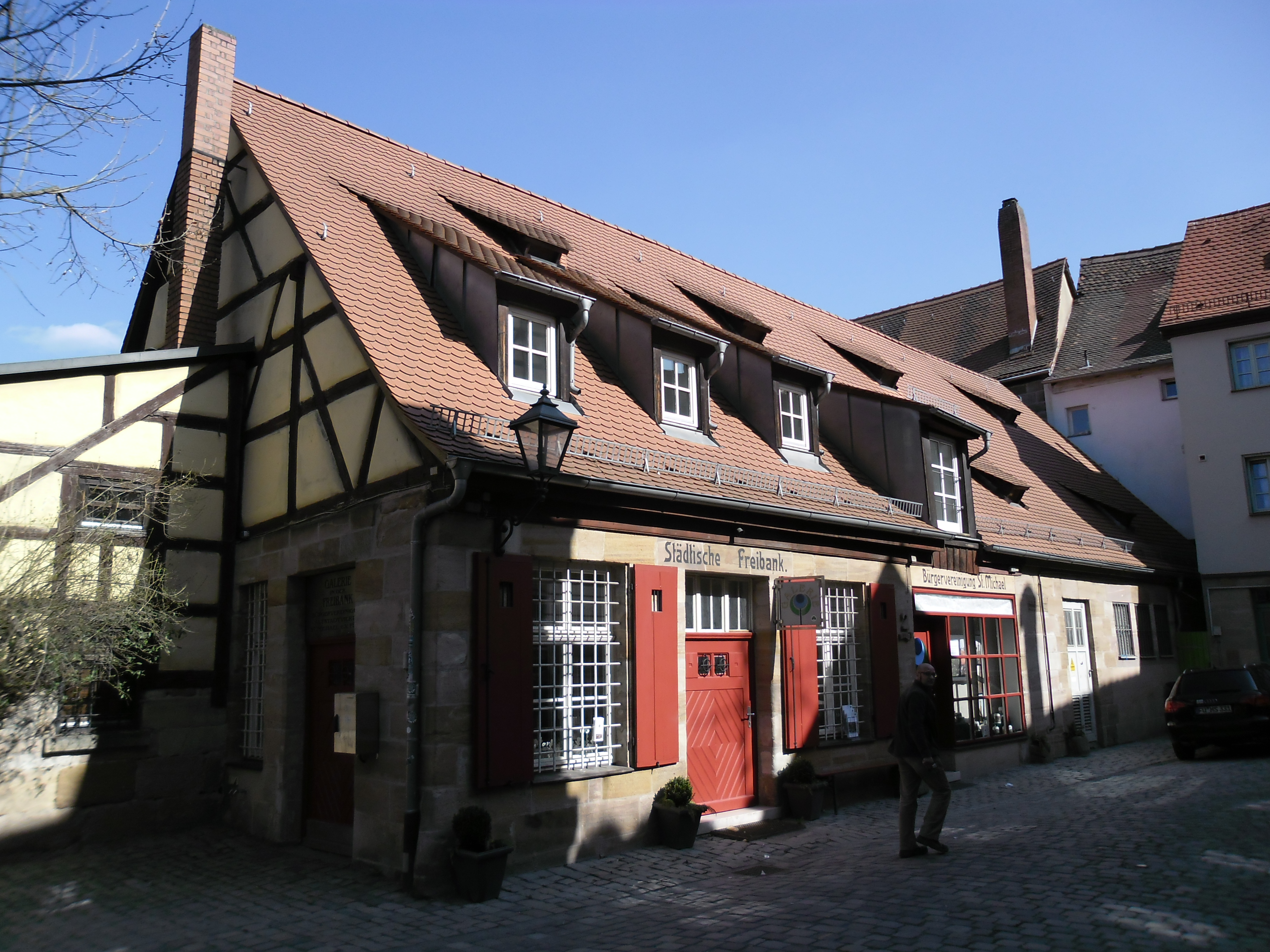 Building of the former „Freibank“ in Fürth, Bavaria